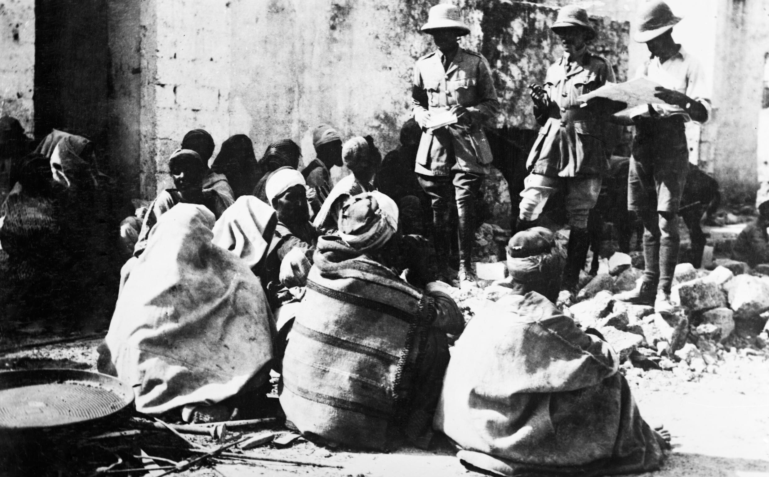 A British officer questioning inhabitants of a captured village after the third battle of Gaza.